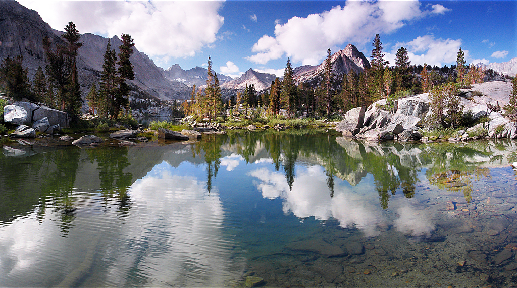 Blue Lake in the Sabrina Basin of the Sierra Nevada. Photo taken on a backpacking trip in the John Muir Wilderness of the Inyo National Forest.